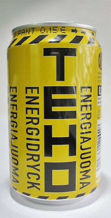 Teho energy drink can